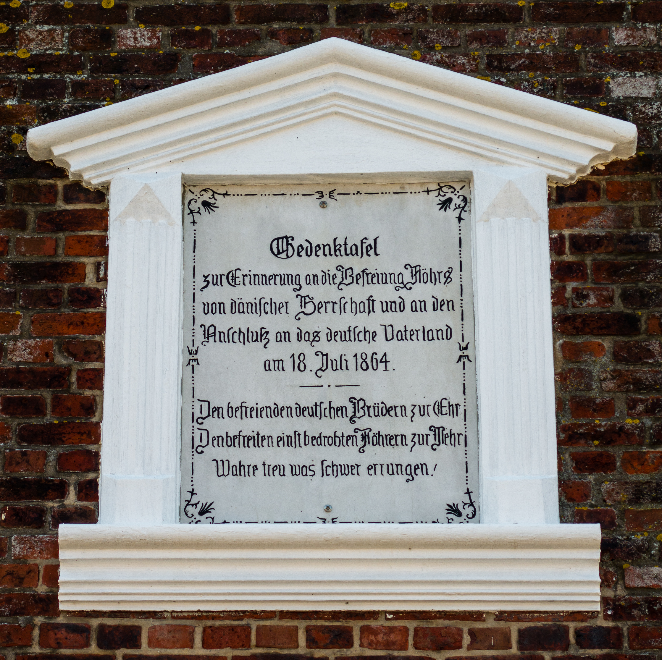 Designation: Bell Tower Location: Große Straße at the corner of the Mittelstraße Place: Wyk, Collective municipality Föhr-Amrum, District Nordfriesland, Schleswig-Holstein, Federal Republic of Germany Construction time: July 18th, 1886 Description: The Wyk Bell Tower is considered to be the landmark of the city Wyk auf Föhr. In earlier times it served to warn the inhabitants of Wyk in case of danger by ringing the bells. It was built because the bells the St. Nicolai church in Boldixum were heard only under favorable wind conditions. Object identification: 794